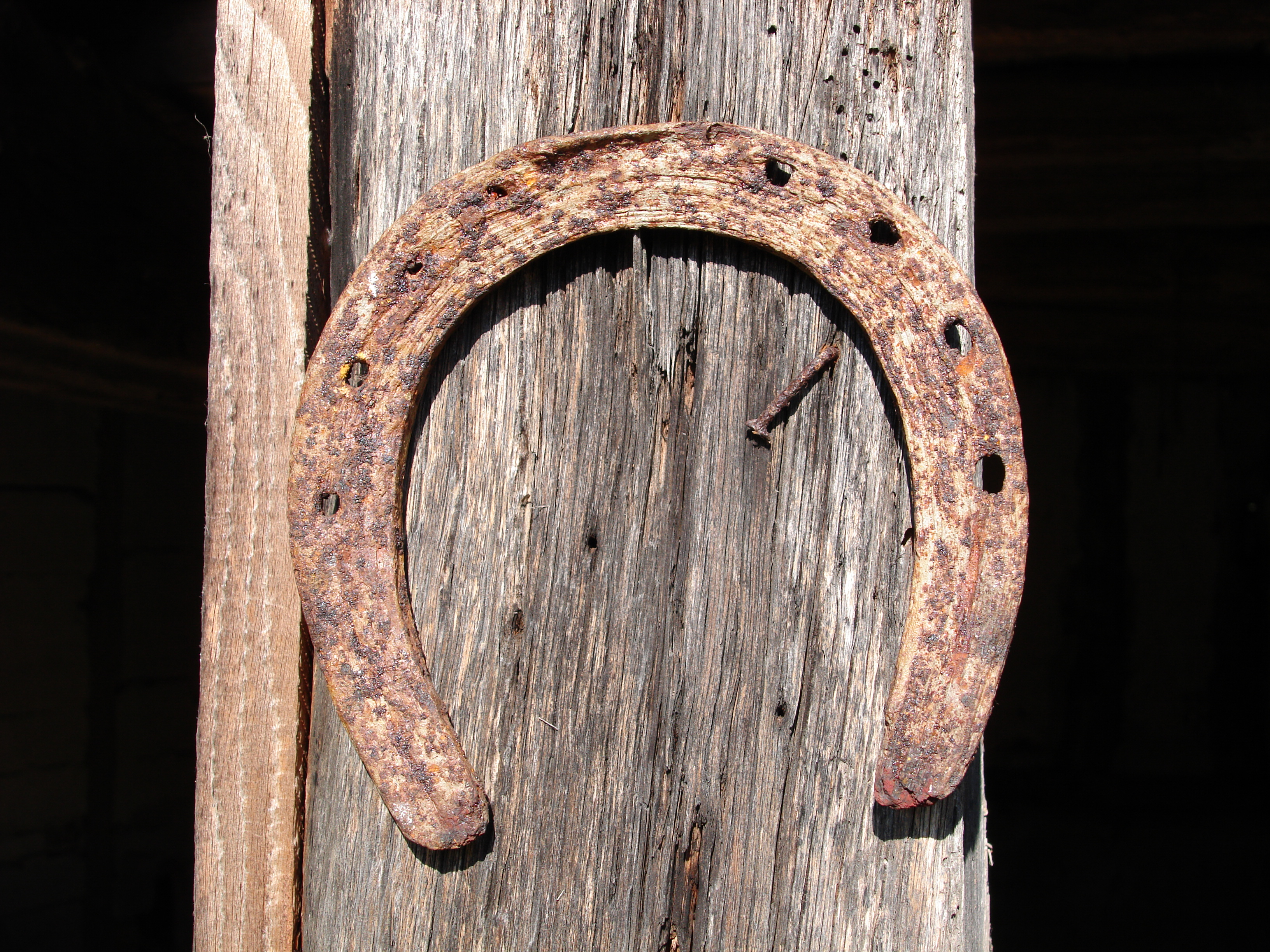 Rusted horseshoe in Romorantin, France.